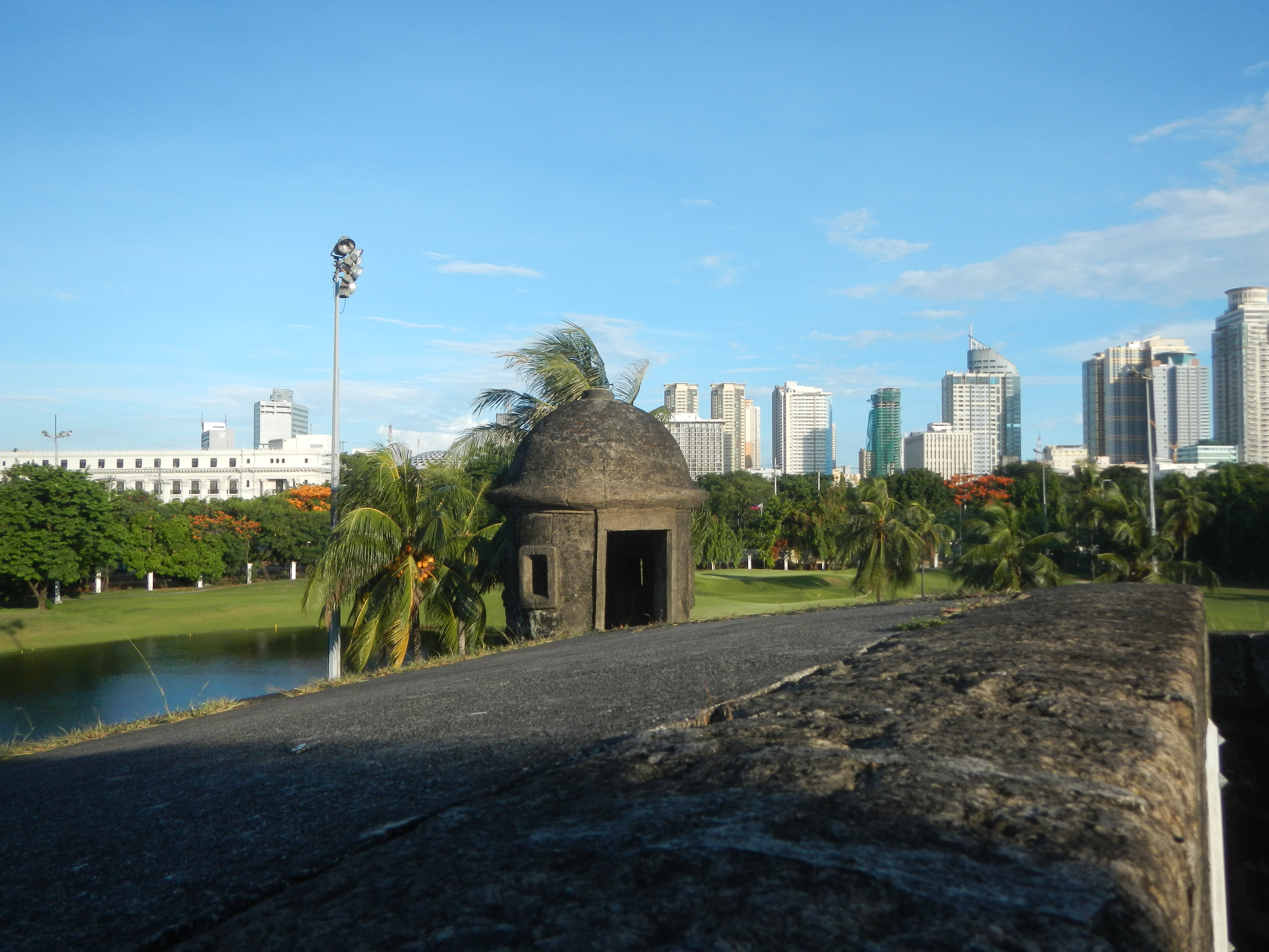 Recoletos (San Nicolas de Tolentino) Church and Convent (Manila Bulletin land and building, Recoletos Street, Intramuros, Manila) 8 Great Churches of Intramuros: San Nicolas de Tolentino Church OAR Order of Augustian Recollects, Intramuros landmarks Manila Bulletin near Victoria-Muralia Street Baluarte de San Diego and Baluarte de San Andres 14°35'13"N 120°58'43"E or de San Nicolas or Carranza Restored in 1987 Intramuros landmarks Bastion Gates of Intramuros Bastion in Intramuros Intramuros in Legislative districts of Manila Political subdivision, Barangays 654, 656, 657 and 658, District V, Intramuros, City of Manila; (Note: Judge Florentino Floro, the owner, to repeat, Donor Florentino Floro of all these photos hereby donate gratuitously, freely and unconditionally all these photos to and for Wikimedia Commons, exclusively, for public use of the public domain, and again without any condition whatsoever).